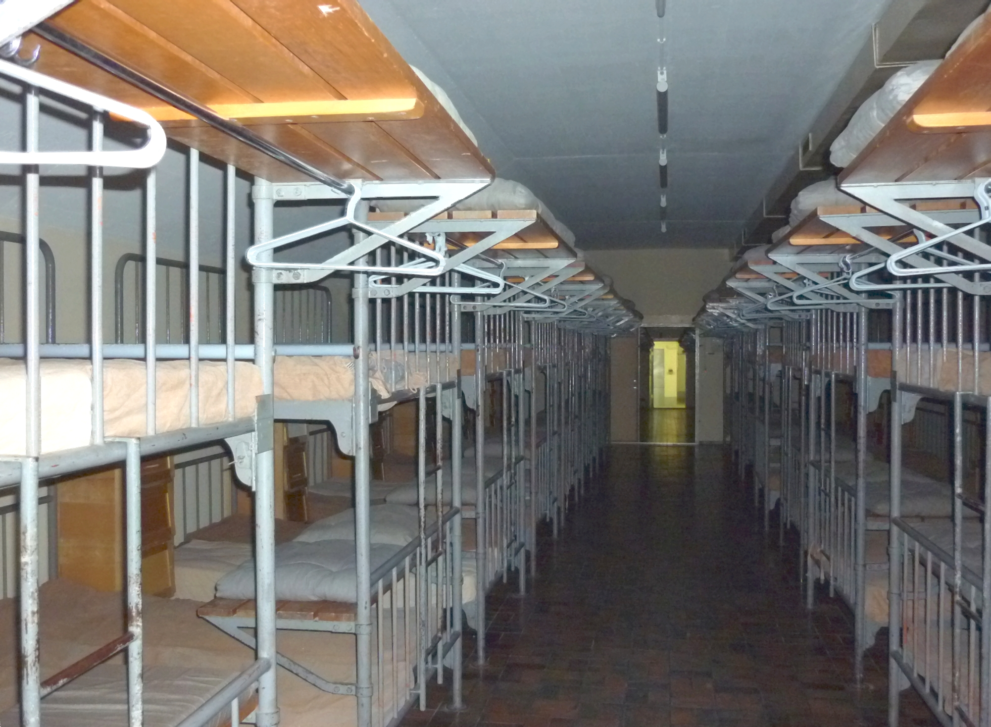 Fort Furkels, Pfäfers SG, Switzerland